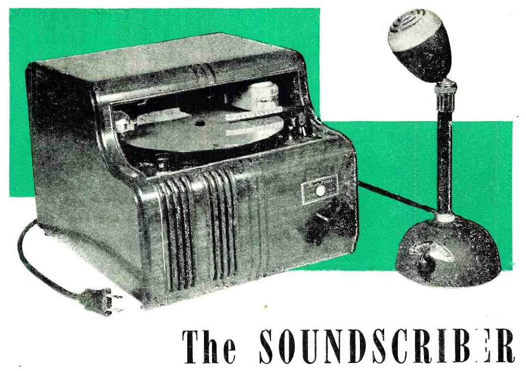 Soundscriber, an early dictation machine that recorded sound with a stylus on a thin vinyl disk. The system could record 15 minutes of dictation on each side of the 7 inch disk at 33 RPM, at a density of 200 grooves per inch. Disks cost about 10 cents. Unlike conventional records, in which the sound vibrations were recorded as lateral, sideways motions of the stylus, and the groove is actually cut into the record, the Soundscriber records sound by vertical motions of the stylus, so the depth of the groove represents the amplitude of the audio signal. The stylus embosses the groove into the vinyl without cutting, so no plastic waste is produced.